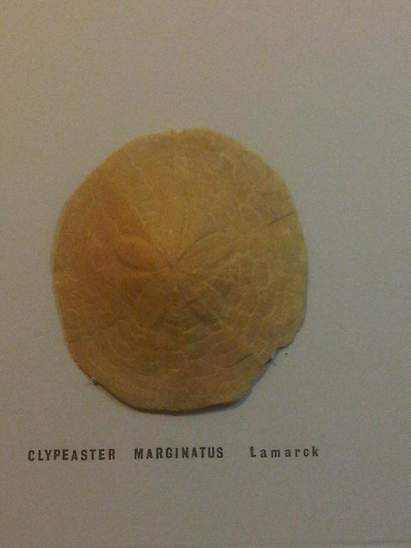 Clypeaster marinanus - syn: Clypeaster marginatus at the National Museum of Natural History, Vilhena Palace, Republic of Malta. The genus Clypeaster is indicative of a shallow warm sea. Though abundant in the seas of the Mediterranean region during Tertiary times, it has now completely disappeared from the Mediterranean and survives only in the seas of warm latitudes. Because of their relatively rapid evolution, Clypeasters are of considerable stratigraphic value.